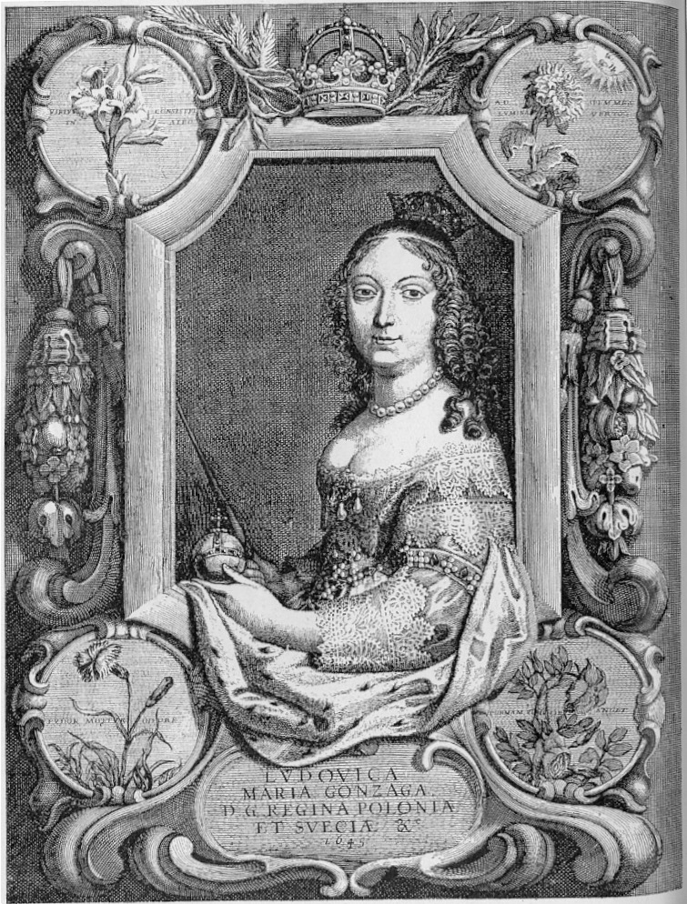 Portrait of Ludovica Maria Gonzaga (1611-1667), Queen of Poland